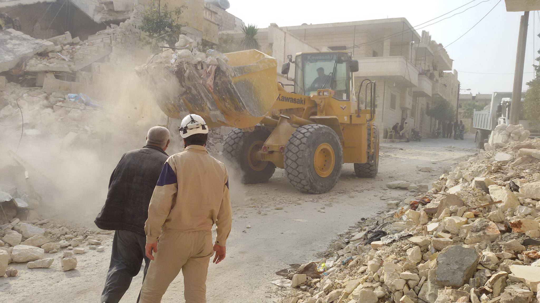 Emergency responders clear rubble with Syria Regional Program-provided heavy machinery following a regime attack in Maaret Nouman, Idleb, in November 2014. USAID